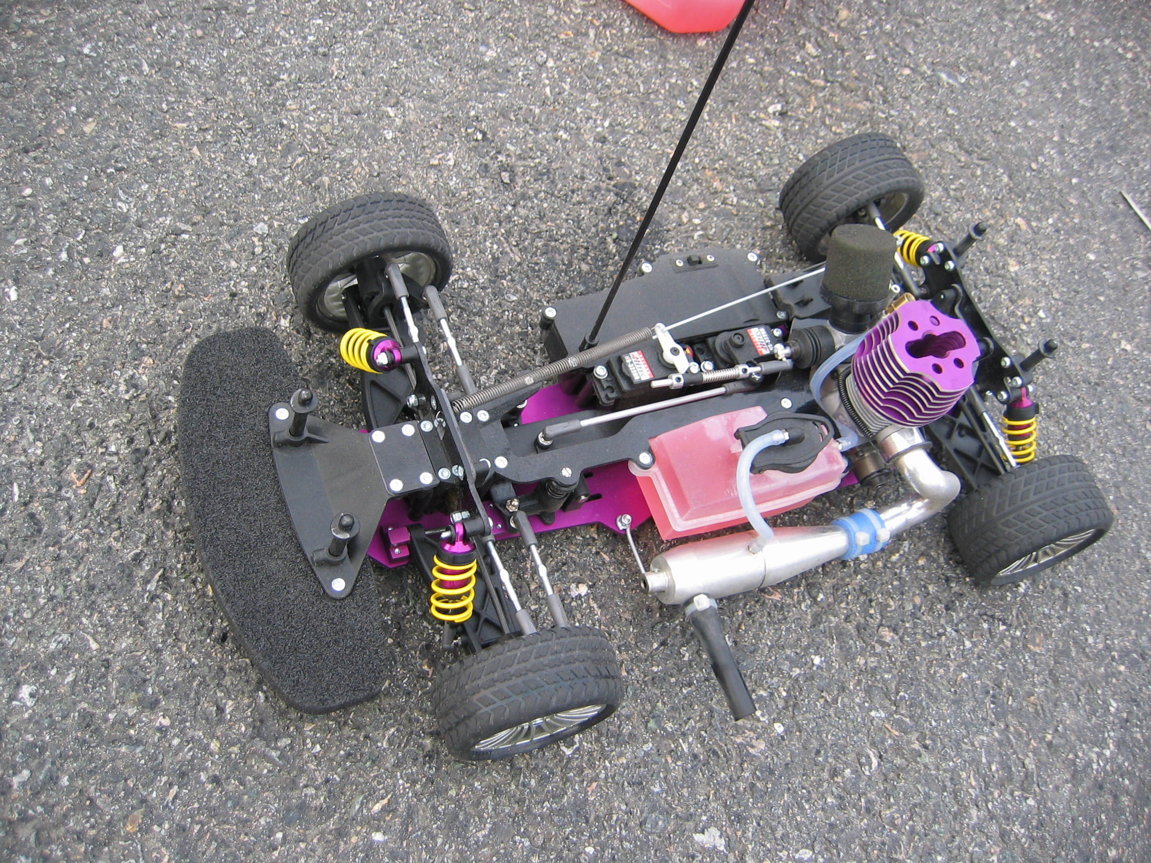 A 100% stock Schumacher GTR with the body removed, tank filled with fuel, preparing to run.